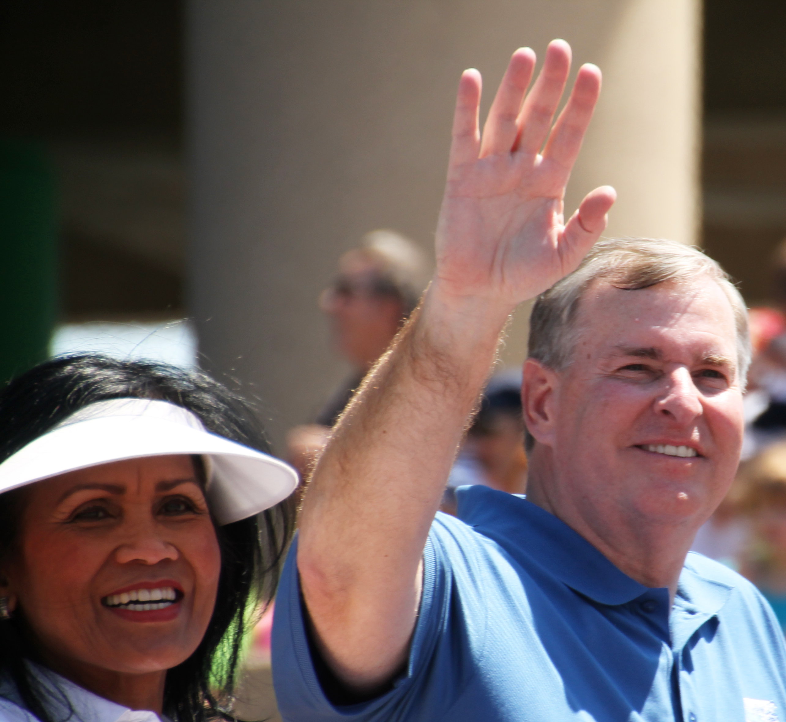 Mayor Greg Ballard with his wife during the 2015 500 Festival Parade in Indianapolis, Indiana.